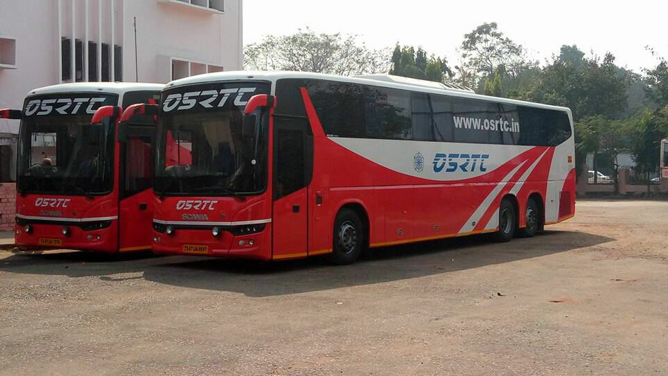 bus